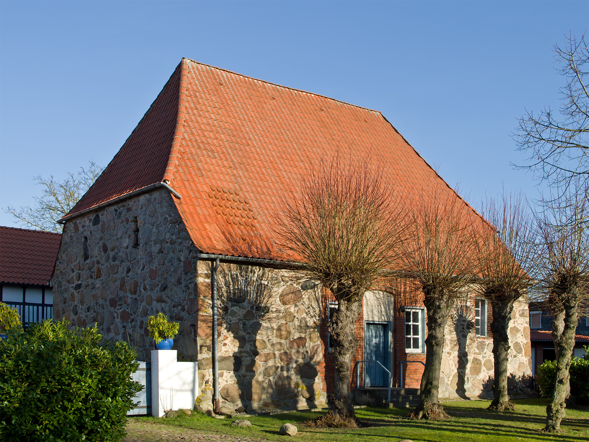 Chapel of the village Schmarsau/Lemgow (district Lüchow-Dannenberg, northern Germany).